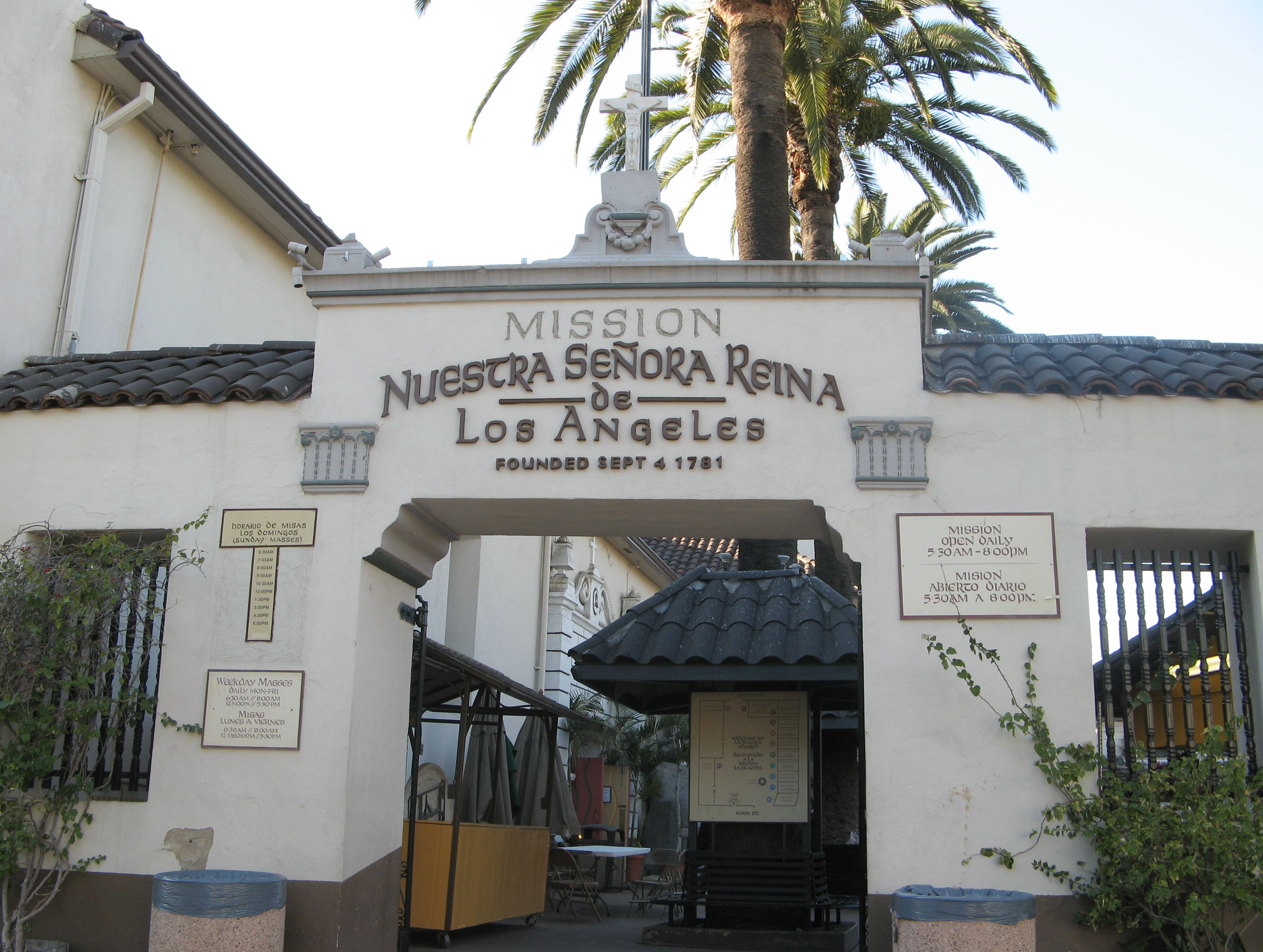 Entryway next to La Iglesia de Nuestra Señora Reina de los Angeles. The word "Mission" has been removed from the entryway. The church is built on the site of a former sub-mission, which had been abandoned by the 1820s. Original caption: "The chapel at Mission Nuestra Señora Reina de los Angeles"